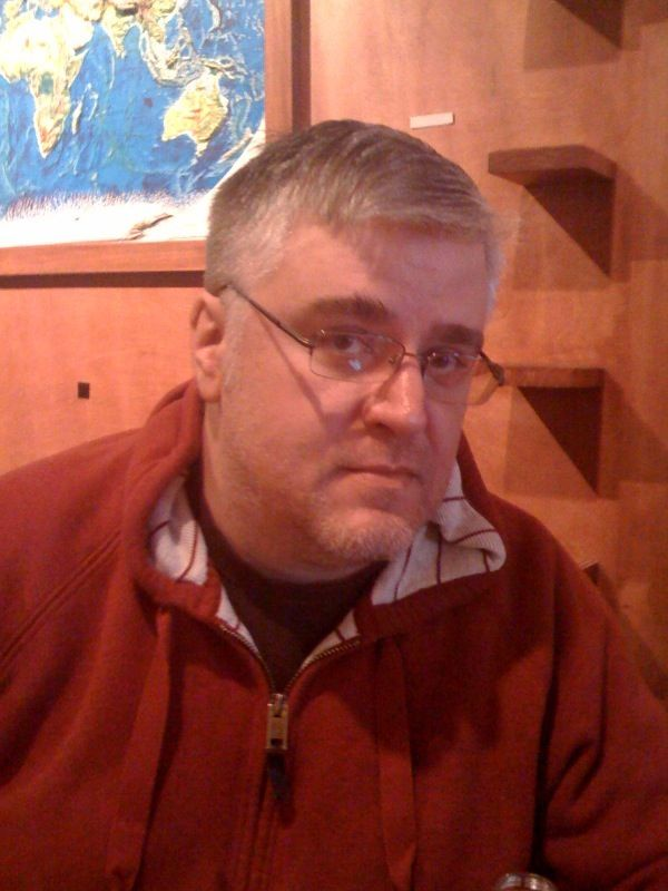 Joey Manley in 2009